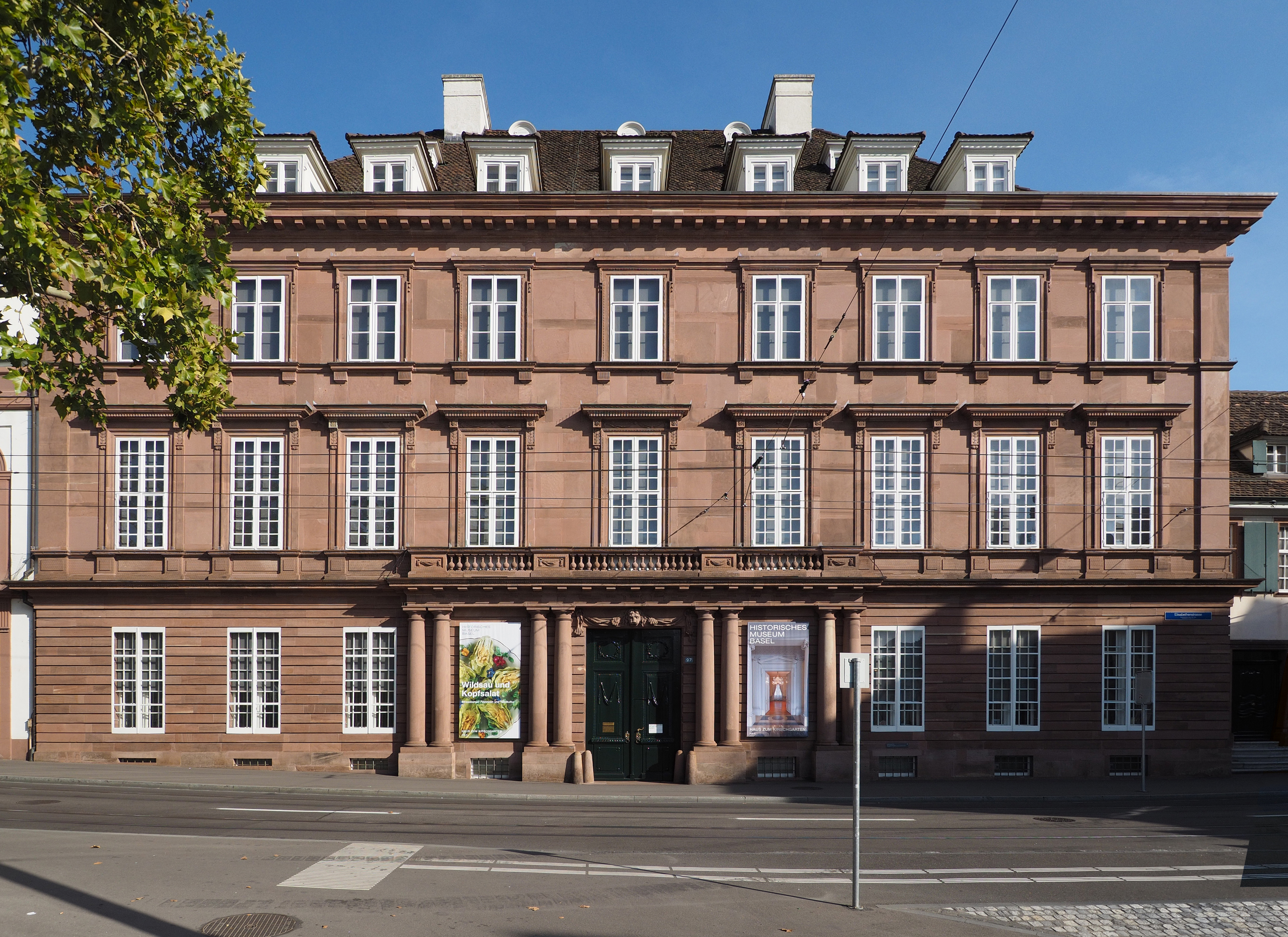 Haus zum Kirschgarten, Basel, Switzerland. Facade to the Elisabethenstrasse.